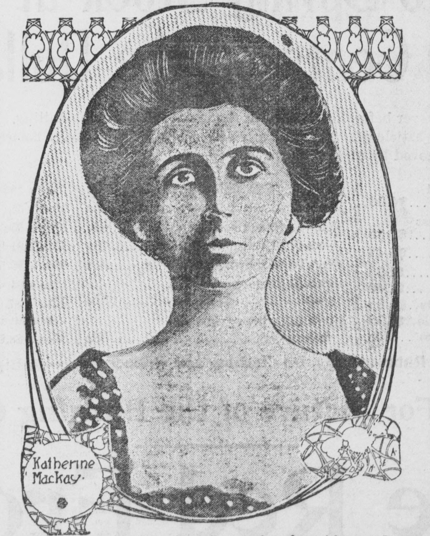 in 1904, Katherine Duer MacKay was married to financier Clarence Mackay. Their marriage ended in 1910, and their divorce became official in 1914.